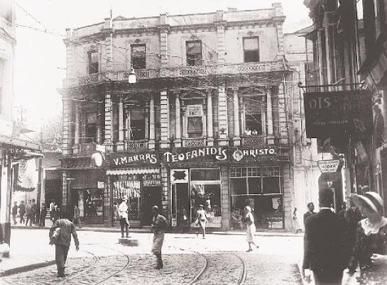 Greek shops in the main street of Beyoğlu/Pera, Istanbul, 1930s.